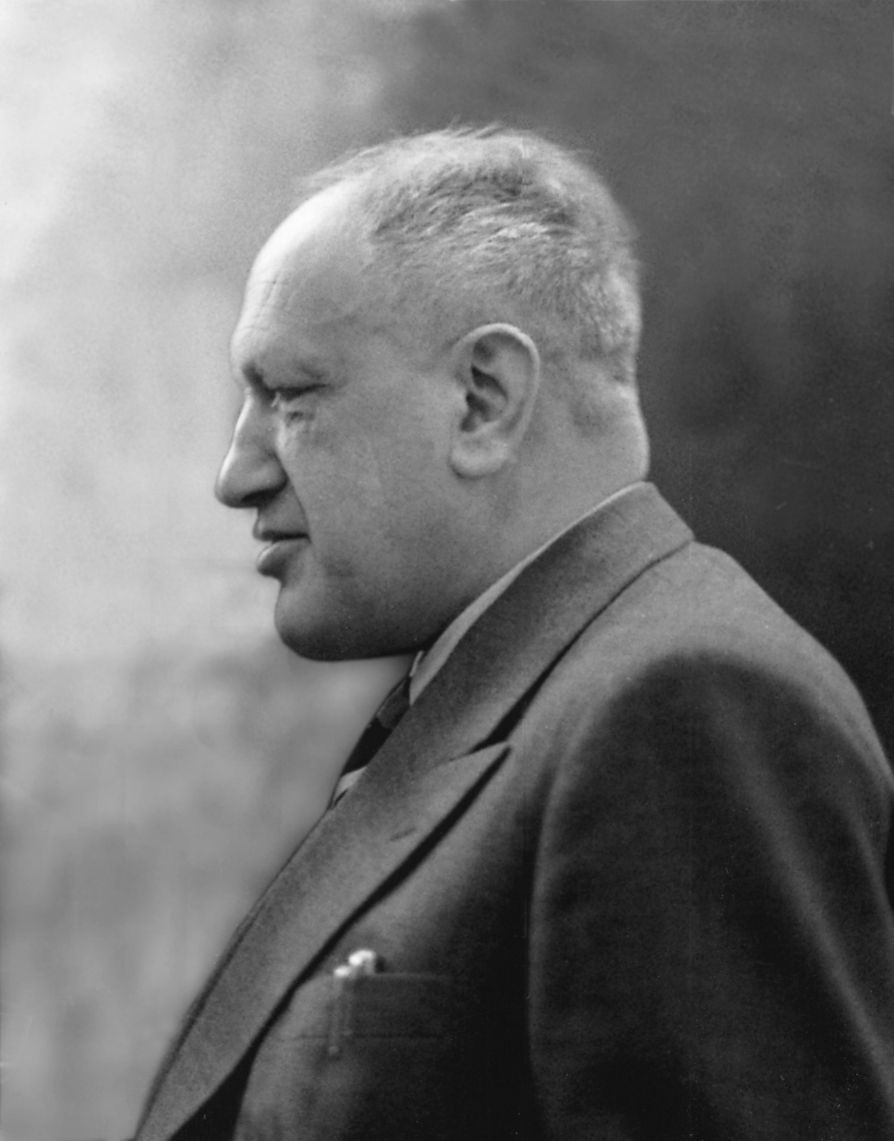 Professor Leopold Infeld, Polish physicist, photo taken 1960 by myself, scanned 2009